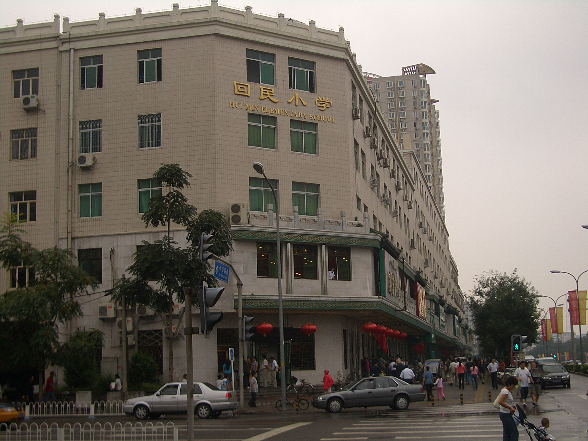 Beijing Xuanwu Huimin Elementary School (S:回民小学, T:回民小學, P: Huímín Xiǎoxué, "Hui People Elementary School"), across the street from the Niujie Mosque in Beijing